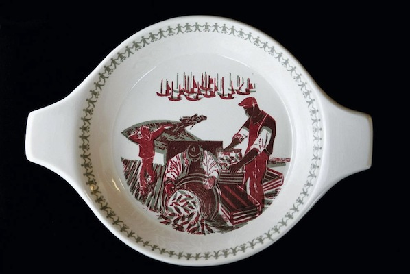 The Samvirkeseries from Stavangerflint, Norway